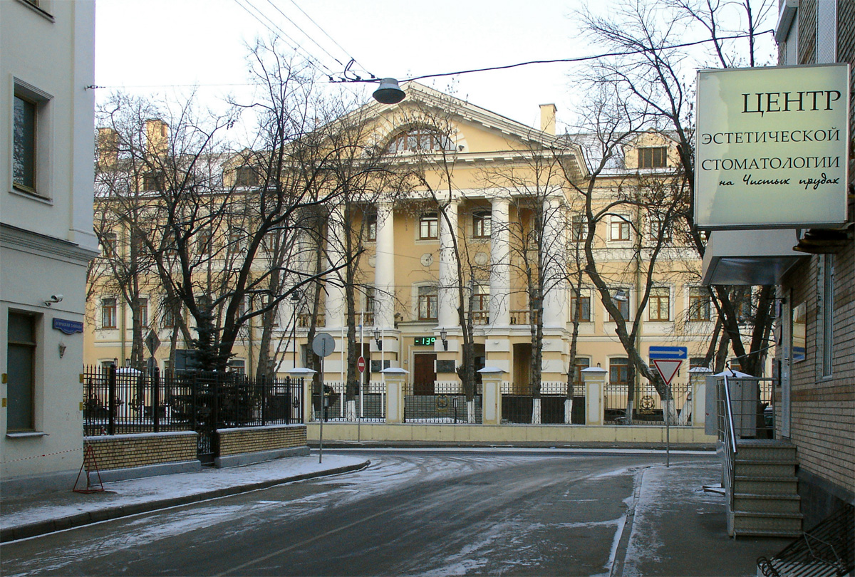 Maly Kharitonyevsky Lane, Moscow